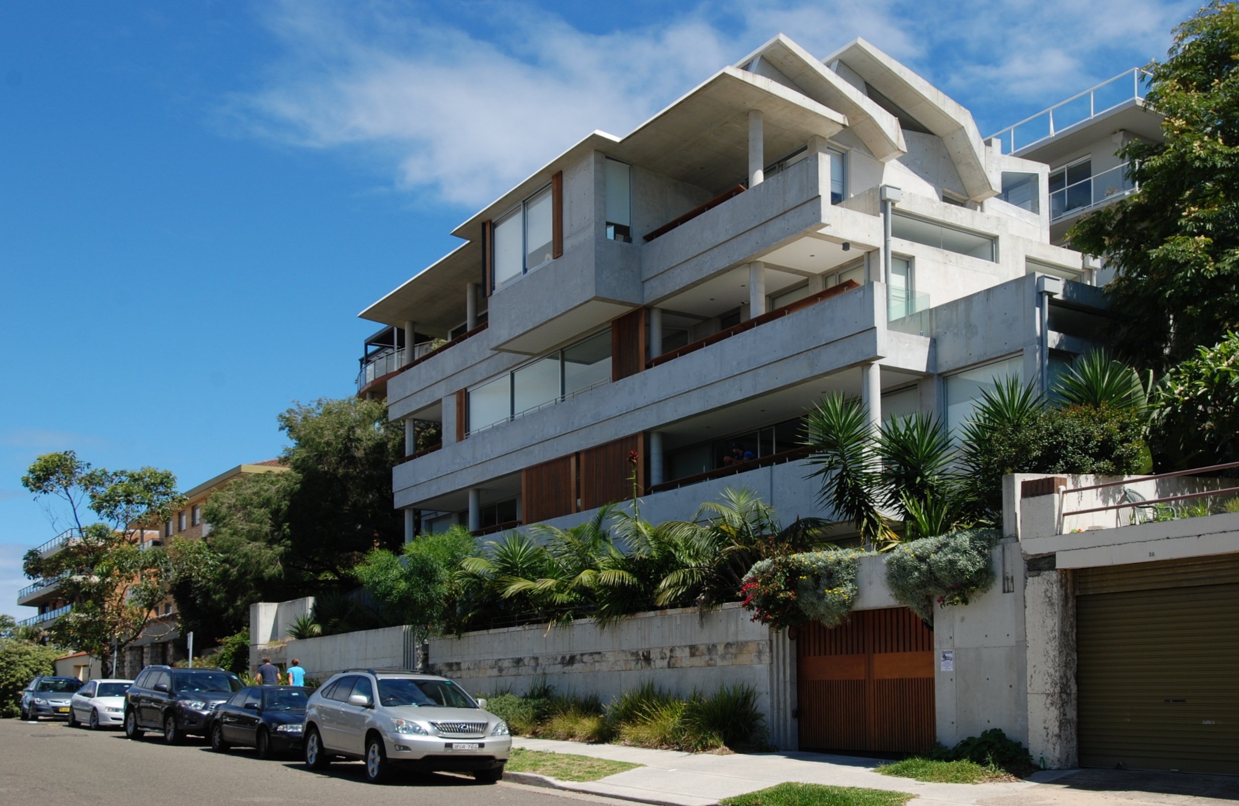 Francis Street Apartments, Bondi. Designed by Candalepas Associates.